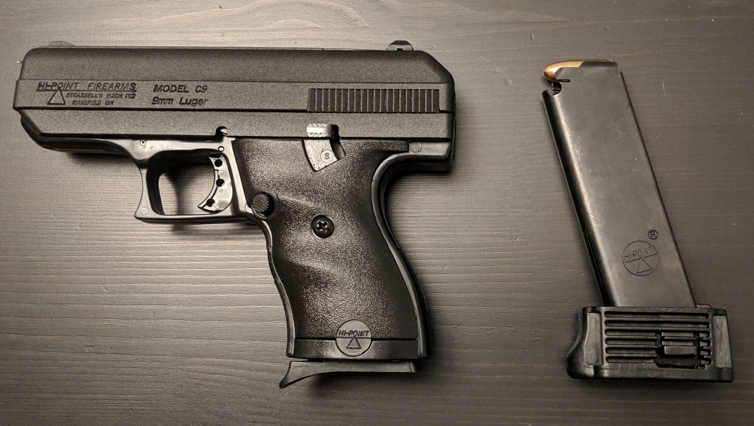 A loaded Hi-Point C9 semiautomatic pistol. The safety is on. It is loaded with the factory-stock eight round magazine with an additional a ten round magazine on the right.